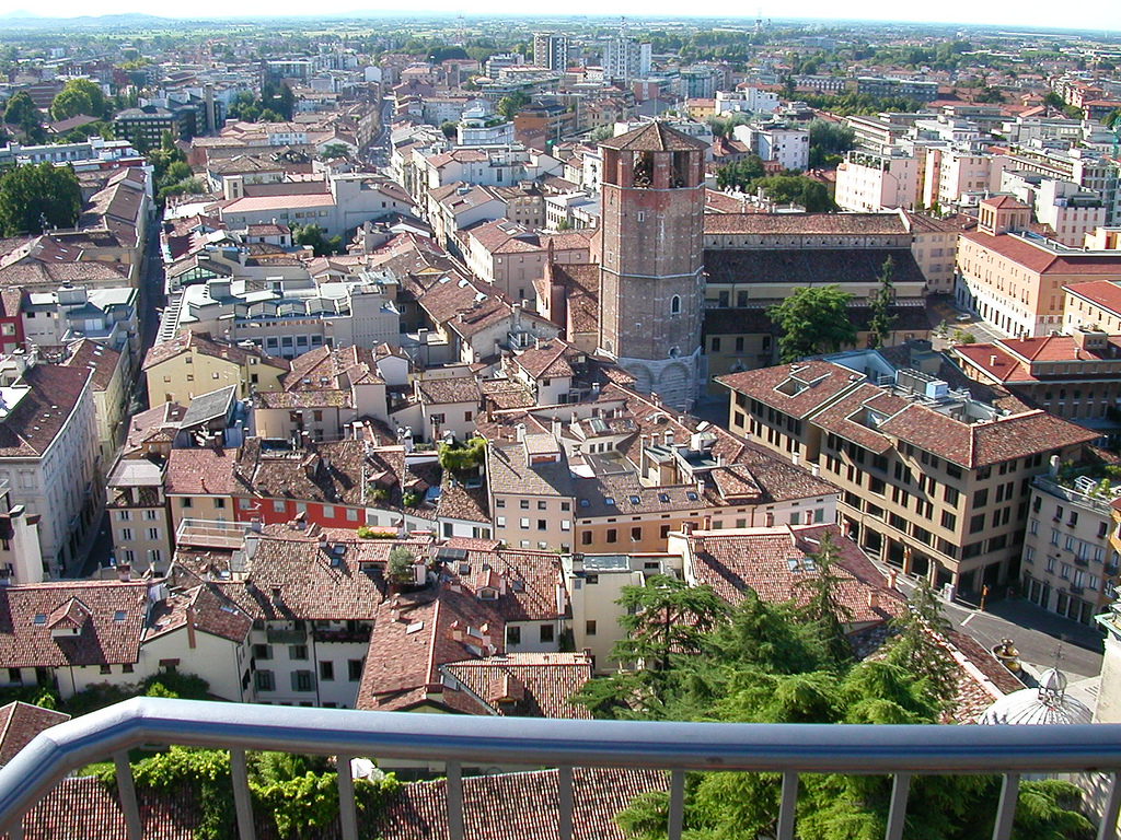 Udine panorama south view